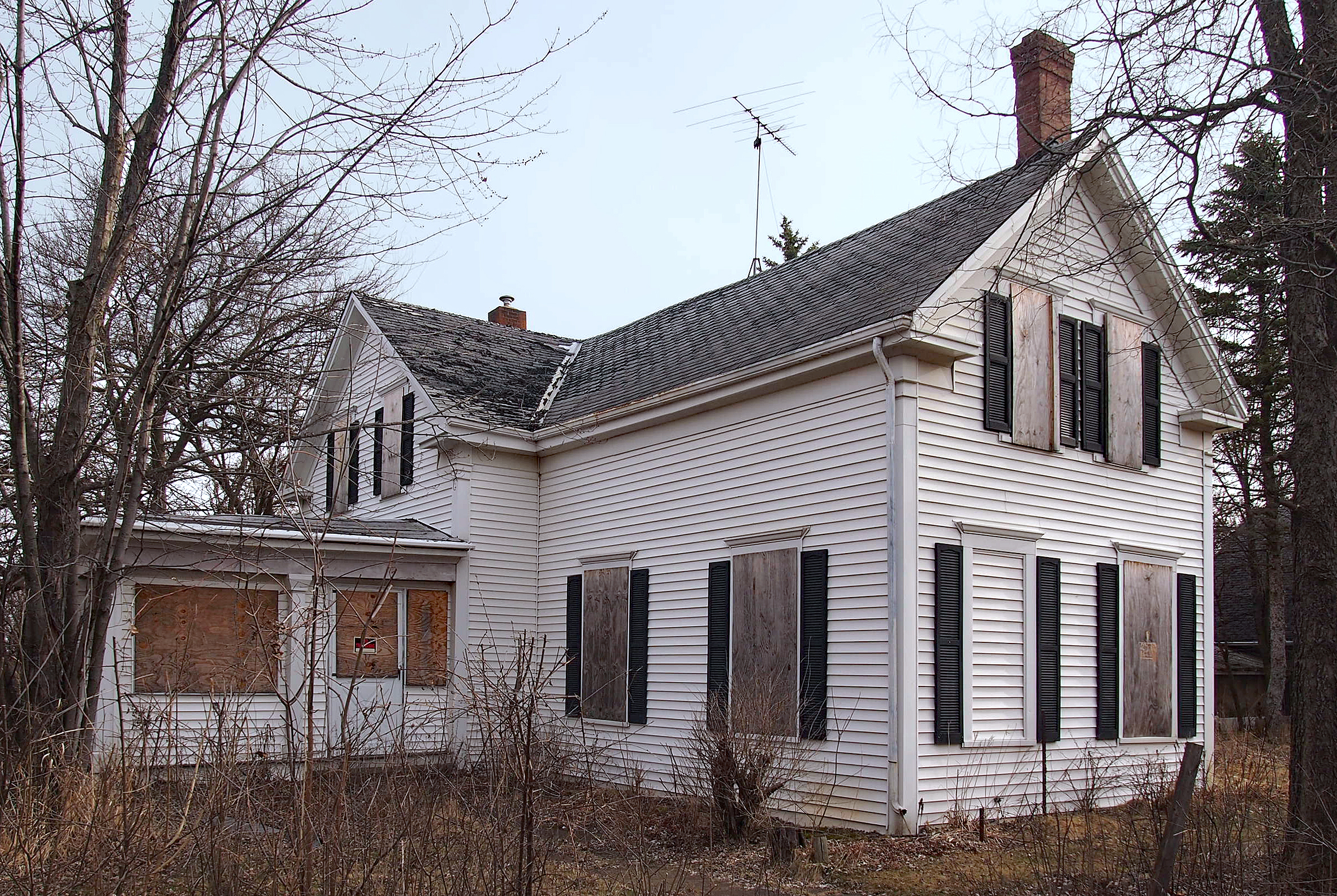 Tobias G. Mealey House, Territorial Rd, Monticello, Minnesota, USA. Viewed from the southwest.